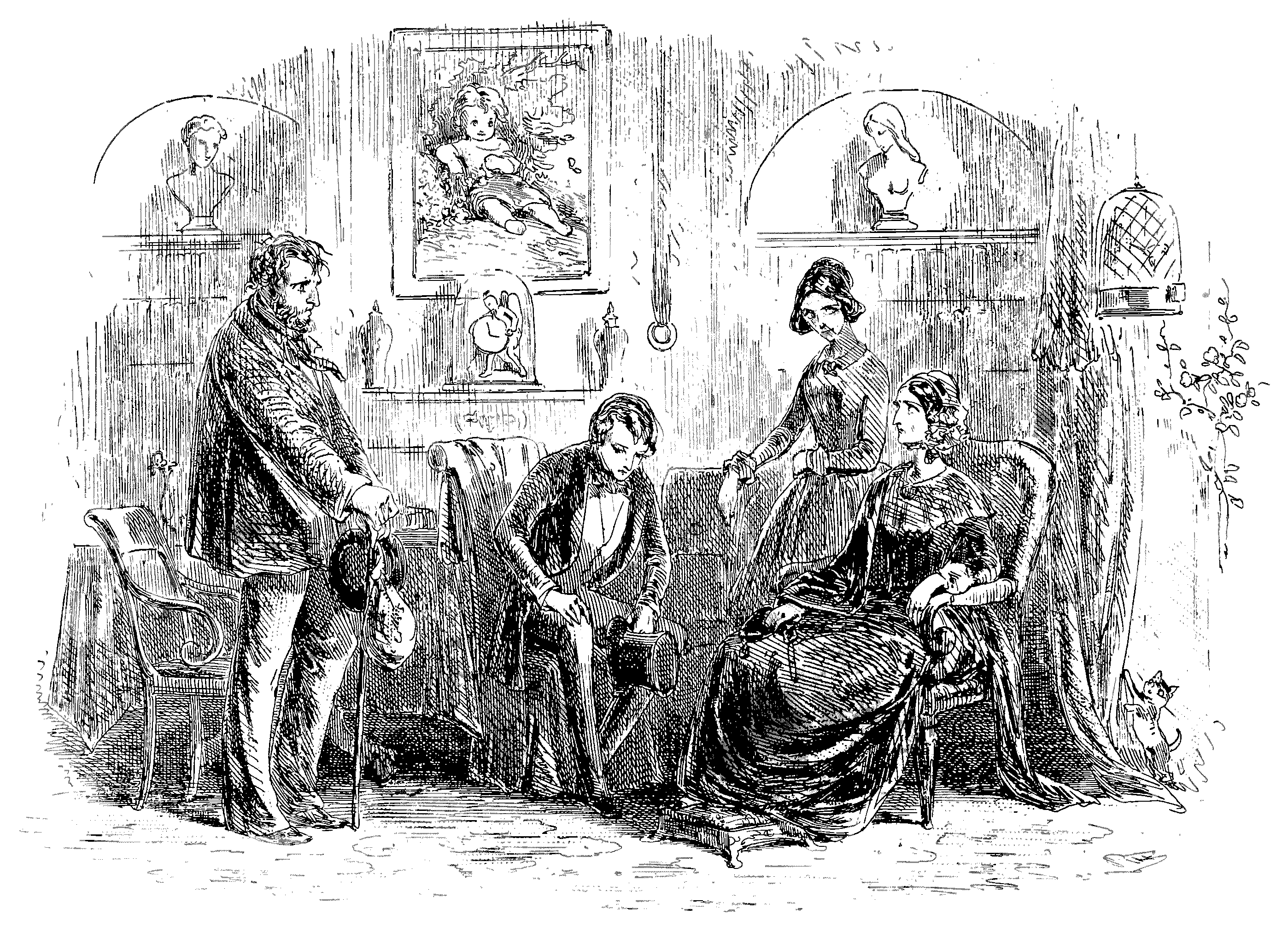 MR. PEGGOTTY AND MRS. STEERFORTH